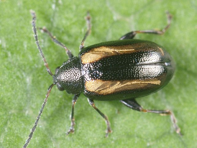 Phyllotreta undulata Location: The Netherlands - Abtsakkers